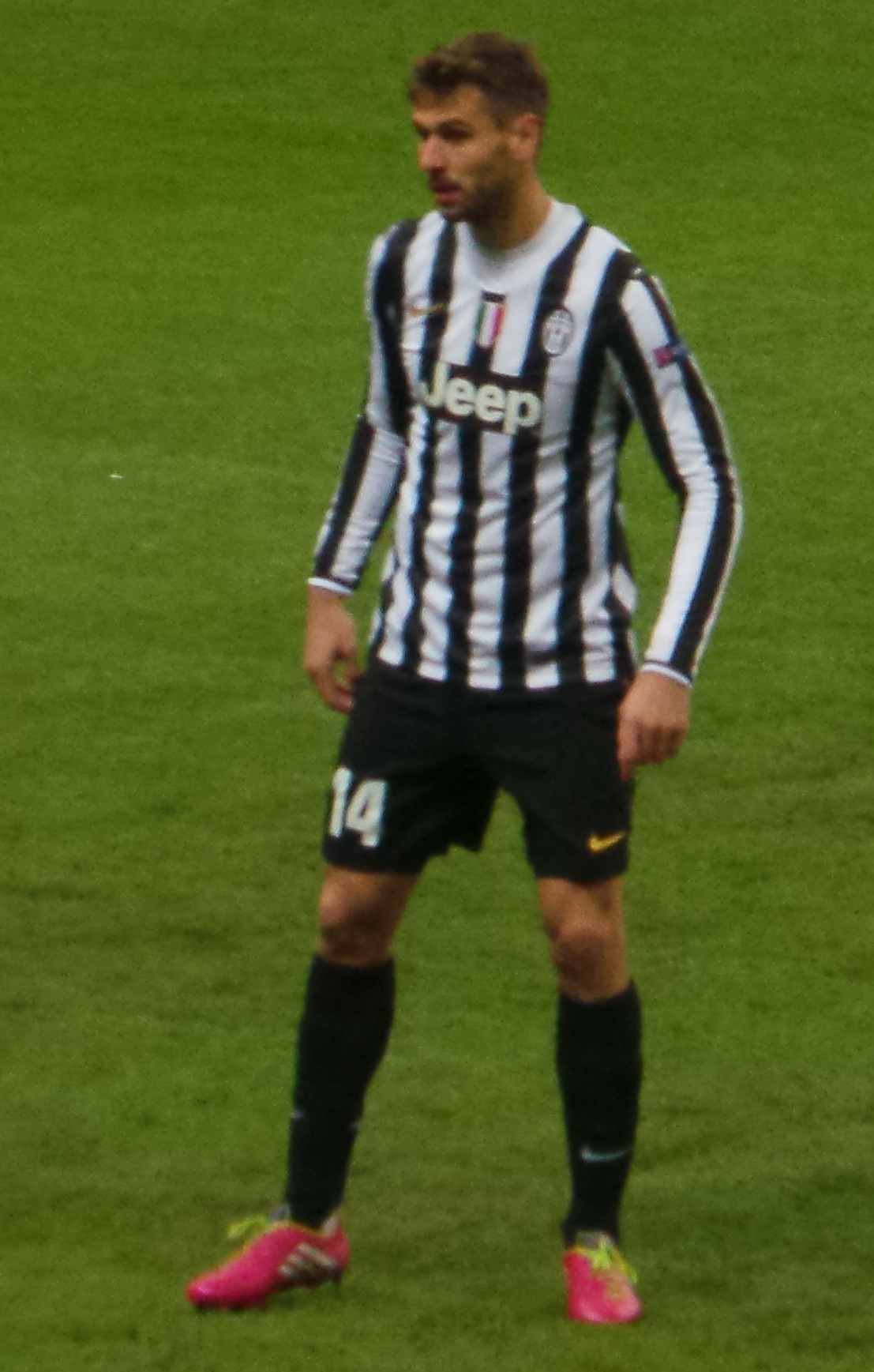 Fernando Llorente